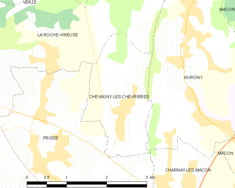 Map of French municipality